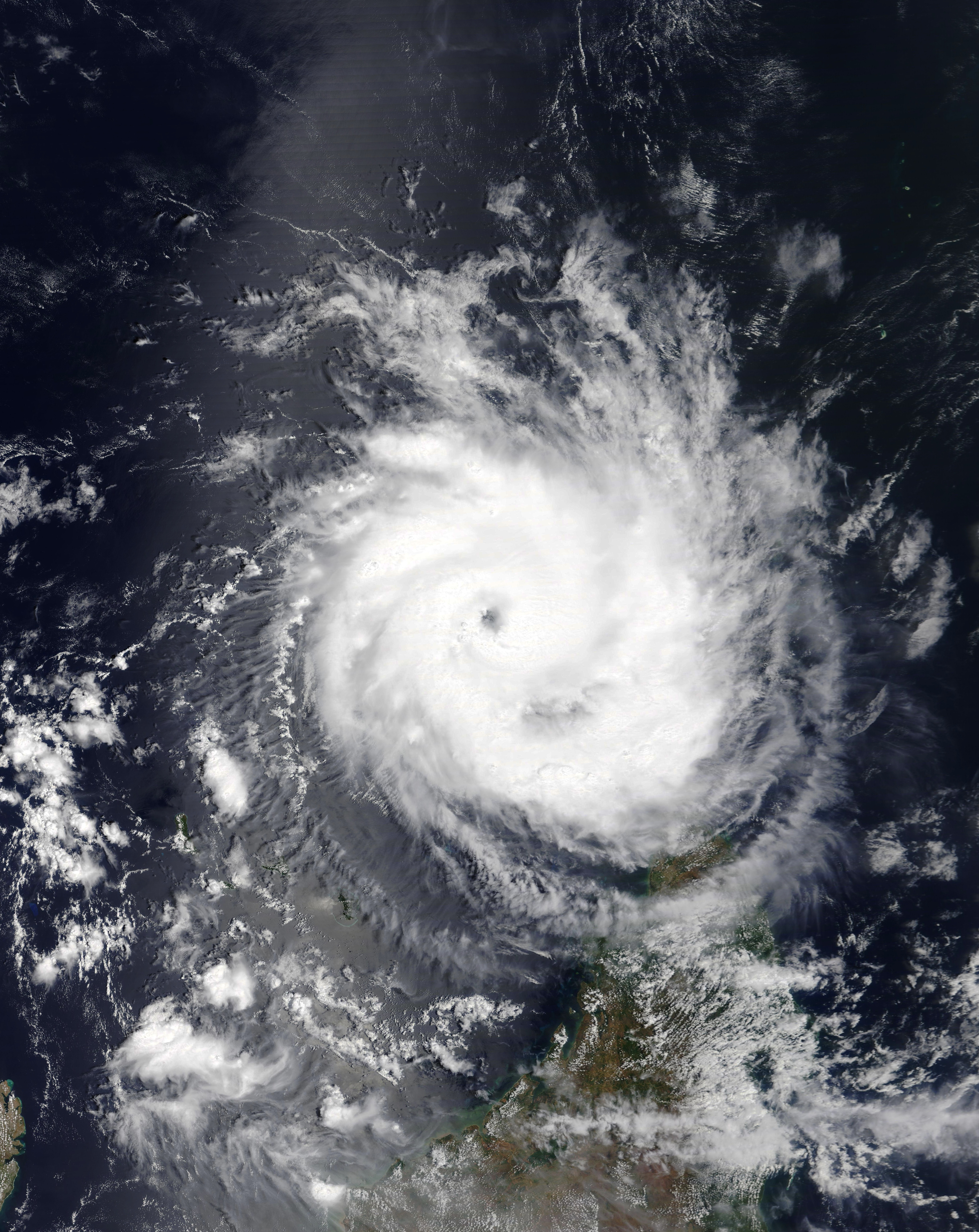 Tropical Cyclone Belna on December 7,2019